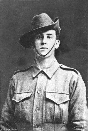 Studio portrait of Second Lieutenant (2nd Lt) Frederick Birks VC MM, 6th Battalion, AIF.